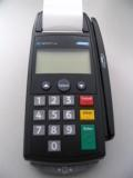 payment terminal on a white table